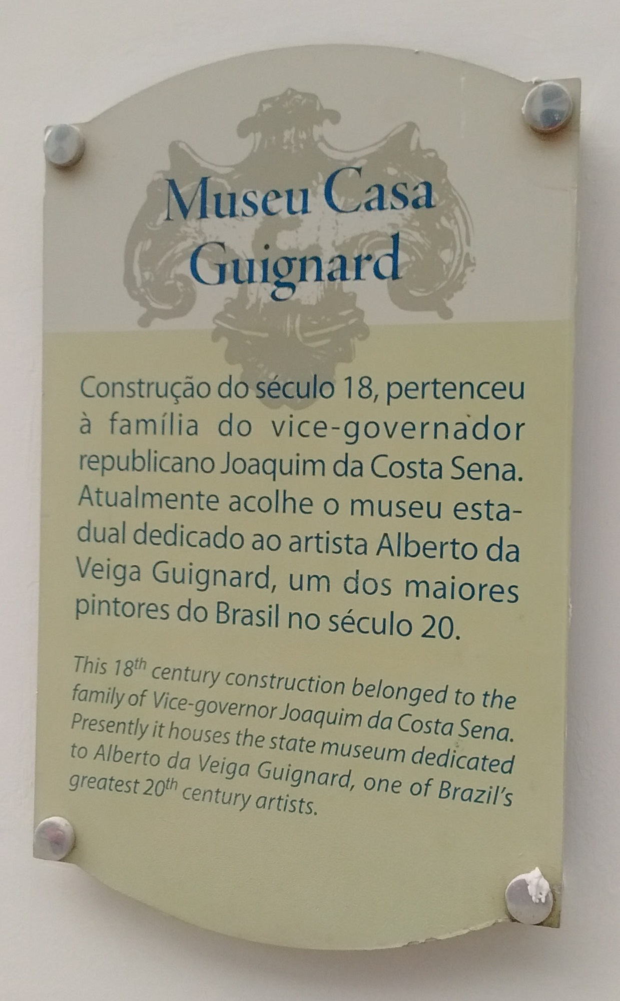 Plaque next to the main entrance of Museum Casa Guignard in Ouro Preto, Brazil